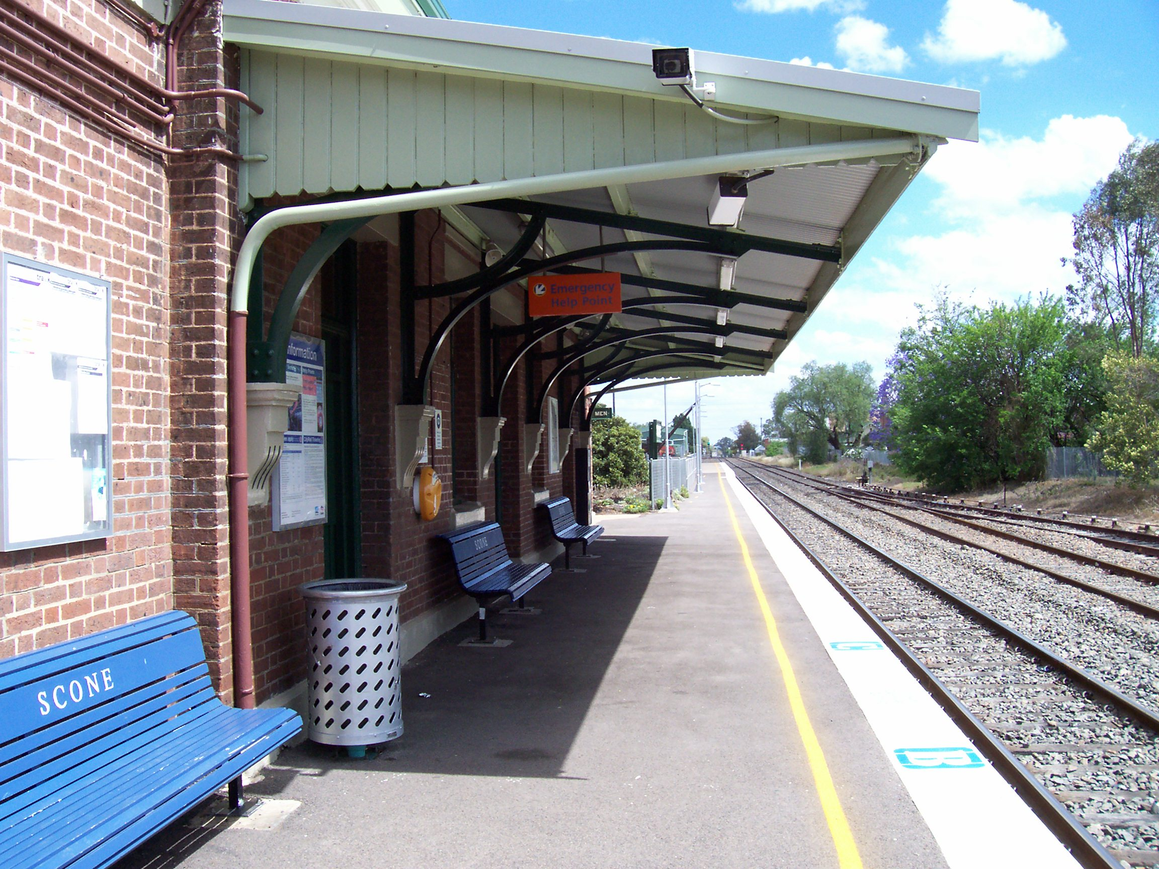 The platform at Scone railway station.